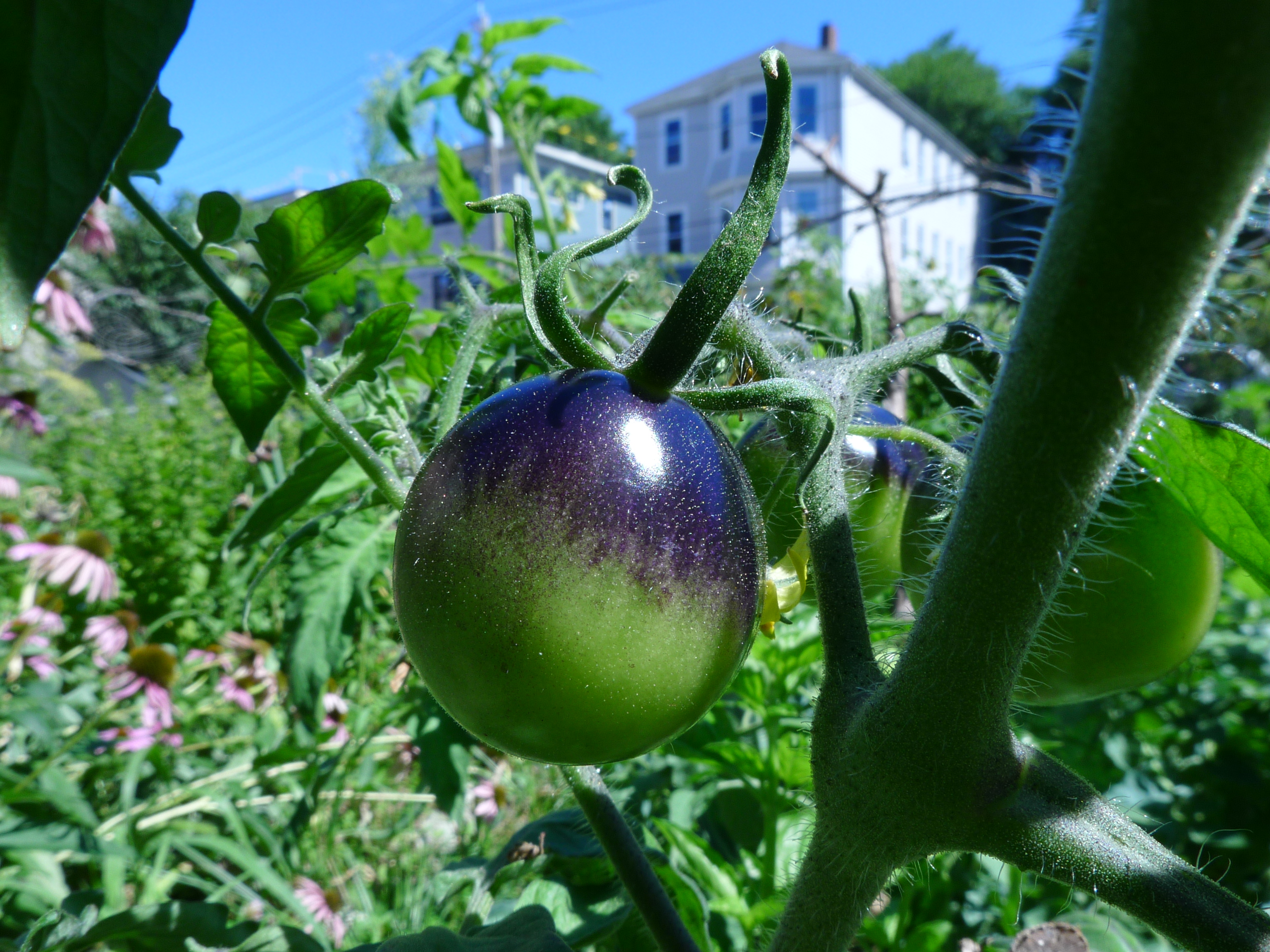 Indigo Rose tomato, in the permaculture garden of the Egleston Community Orchard of the Boston Food Forest Coalition (BFFC) at 195 Boylston St., Jamaica Plain, Boston Massachusetts, MA 02130